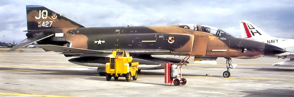 18th Tactical Reconnaissance Squadron - McDonnell RF-4C-30-MC Phantom - 66-0427 at Shaw AFB, 1977